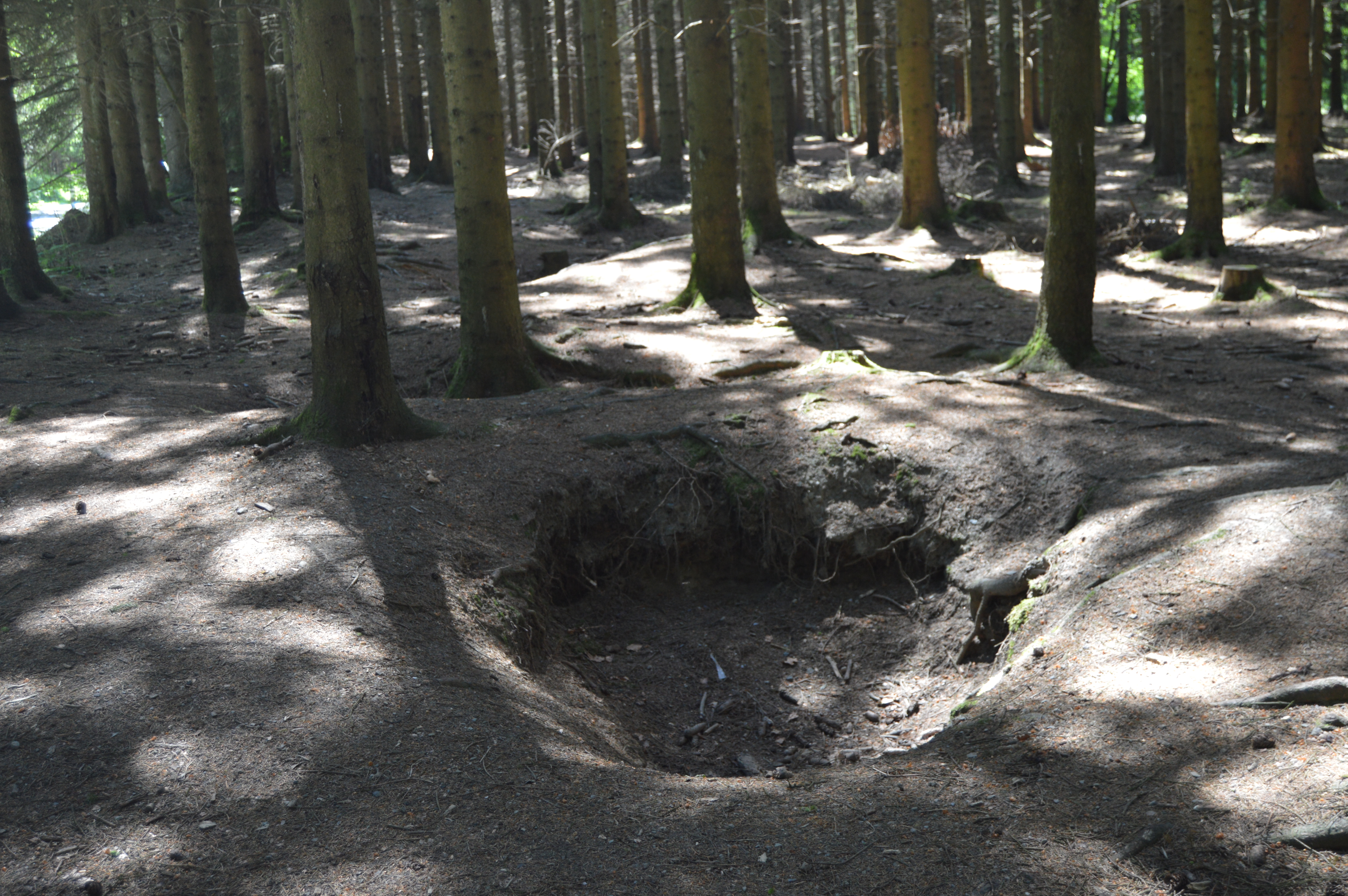 Foxholes in the Jacques Wood at Foy, Bastogne, Belgium. Theses holes were used by the Easy Company (101st Airbones Division) in December and January 1945 to defend Bastogne during the Battle of the Bulge. The place is evocated during episode 7 The Breaking Point of the TV minisey Band of Brothers